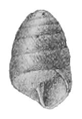 Drawing of apertural view of an subadult shell of Edentulina moreleti